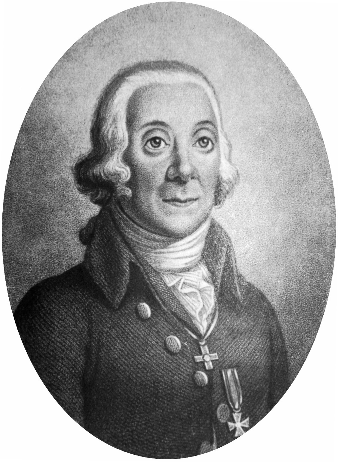 Peter Simon Pallas (1741-1811), a silhouette by A. Tardier. Greyscale.